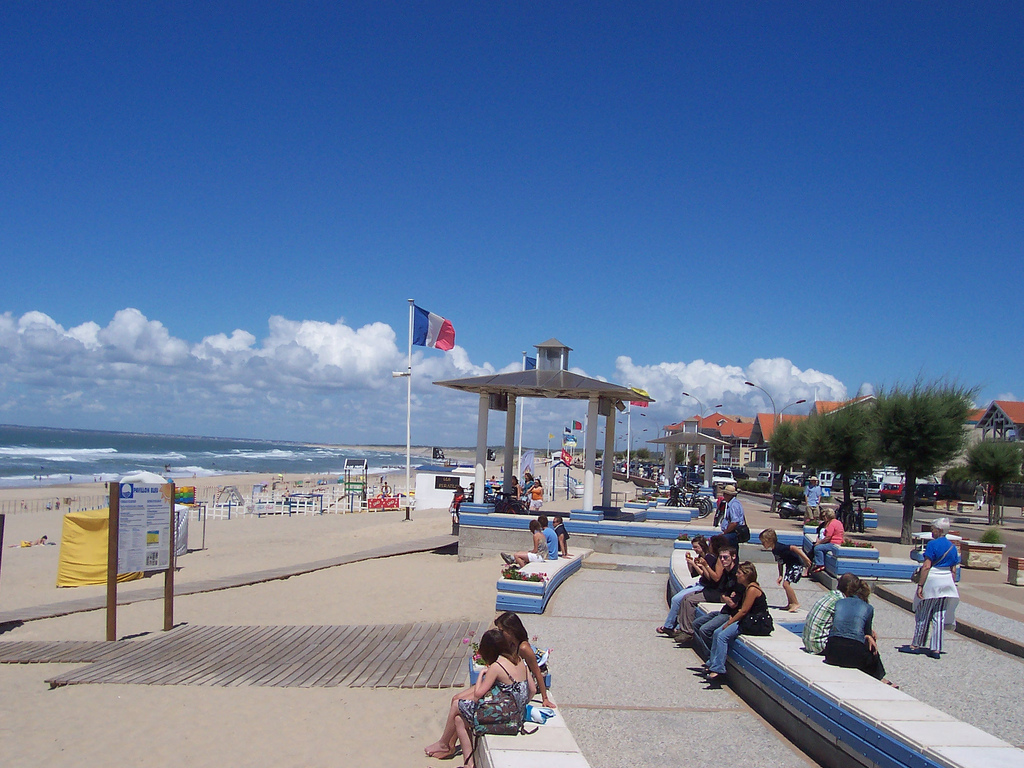 Soulac